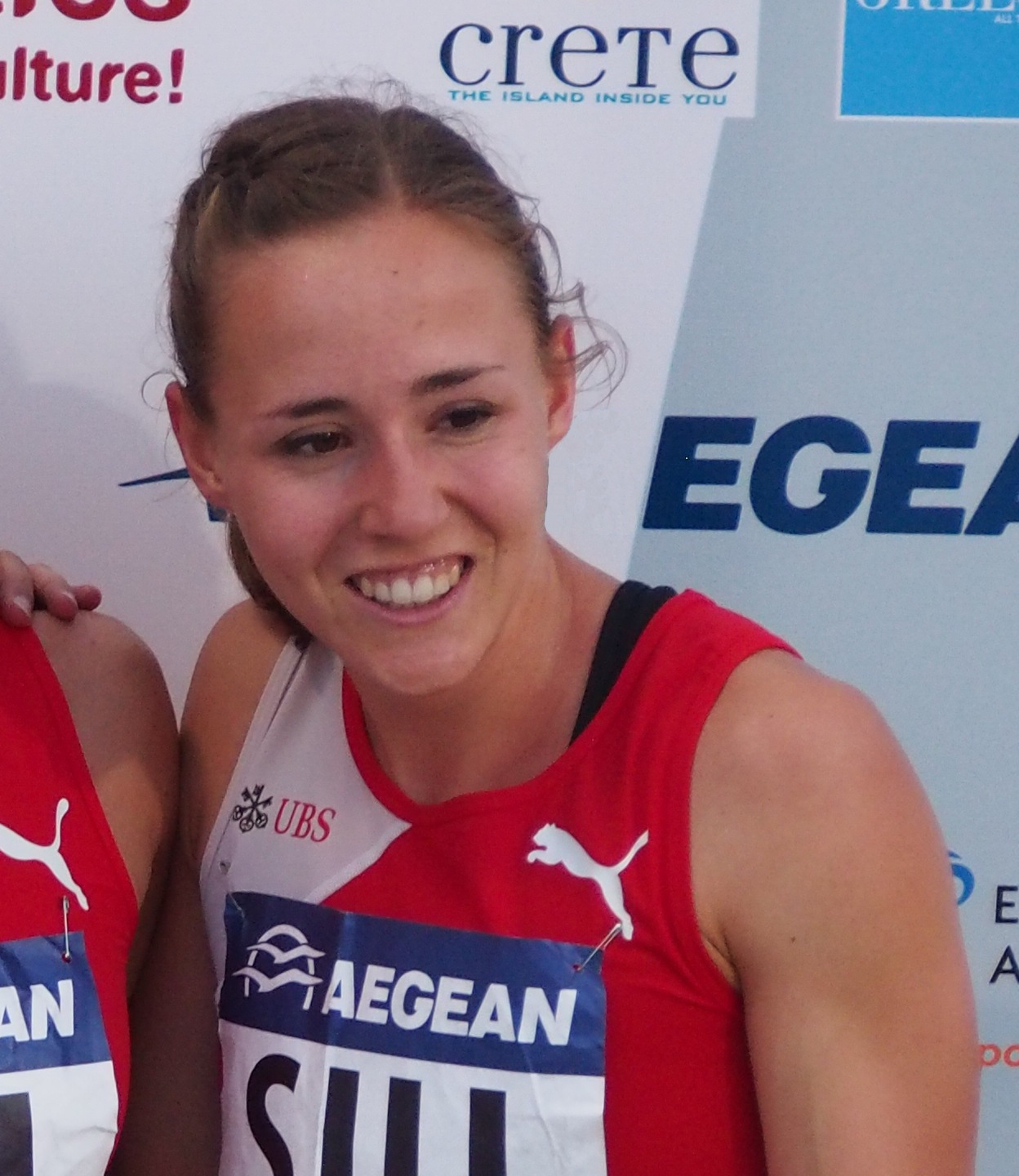 Selina Büchel at the group photo of the Swiss team of 4X400 women's relay, at 2015 European Team Championships First League.